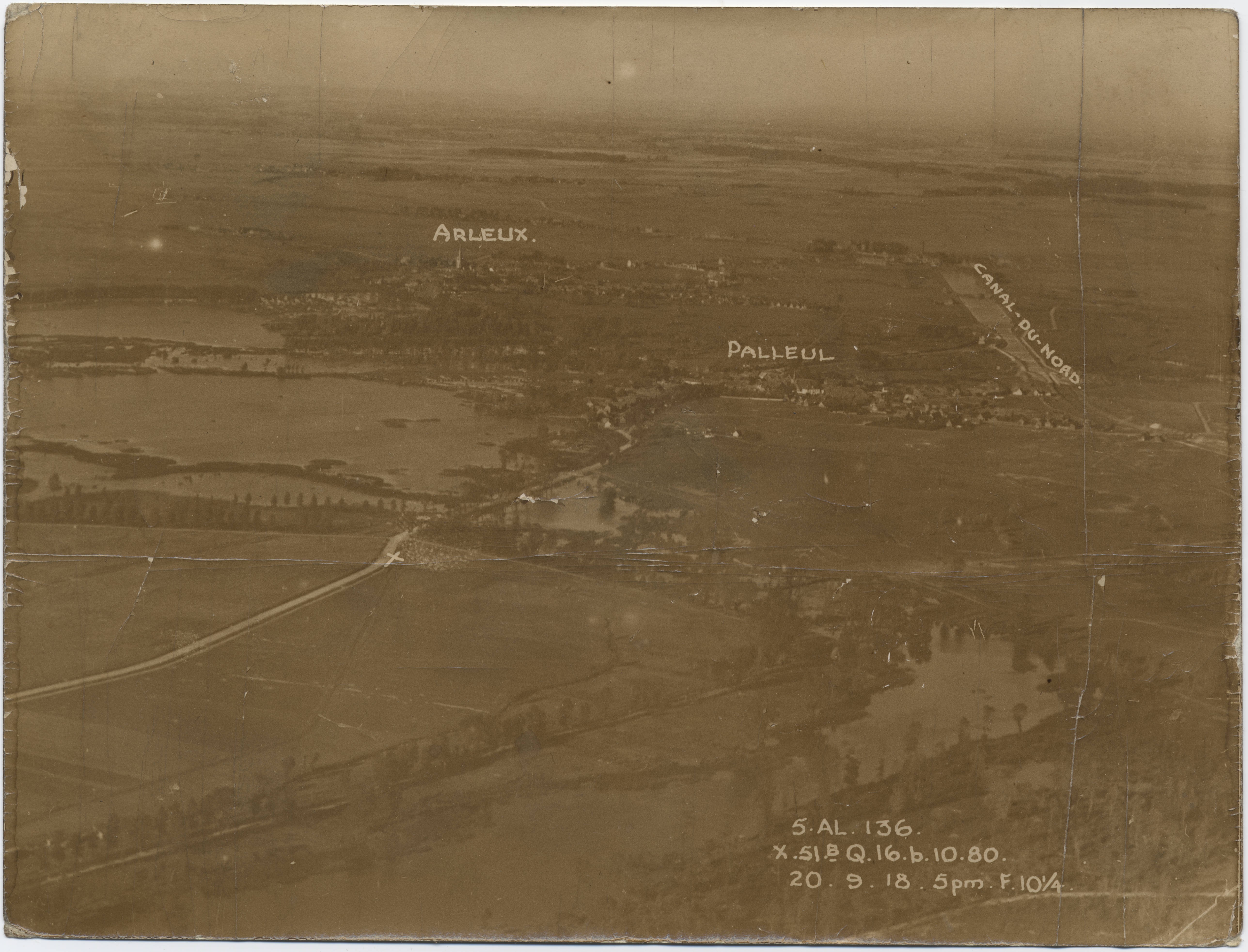 Item is a photograph from an album of World War One-related photographs in the William Okell Holden Dodds fonds. Brigadier General Dodds joined the Canadian Expeditionary Force in 1914 and was commanding officer of the 5th Canadian Division Artillery and served in France from 1917-1918.